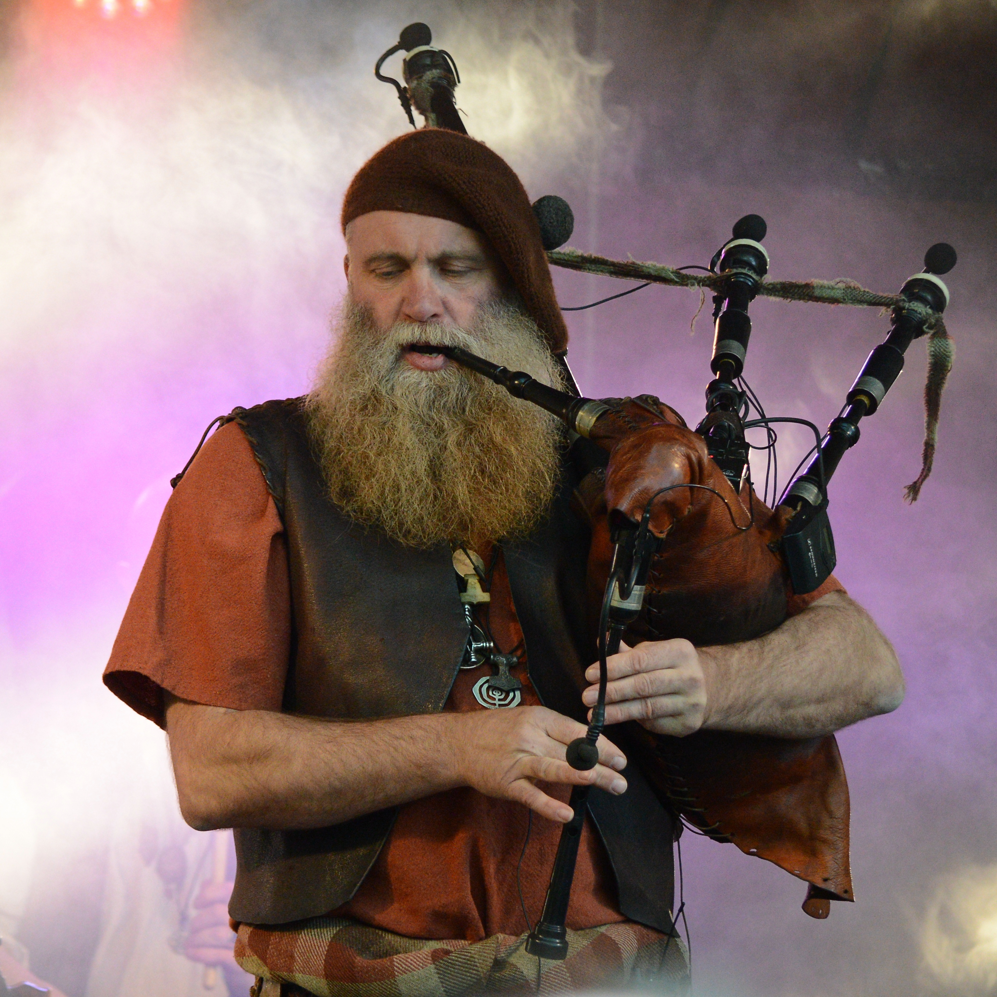 Charlie Allan of Saor Patrol at MPS 2014 in Dortmund